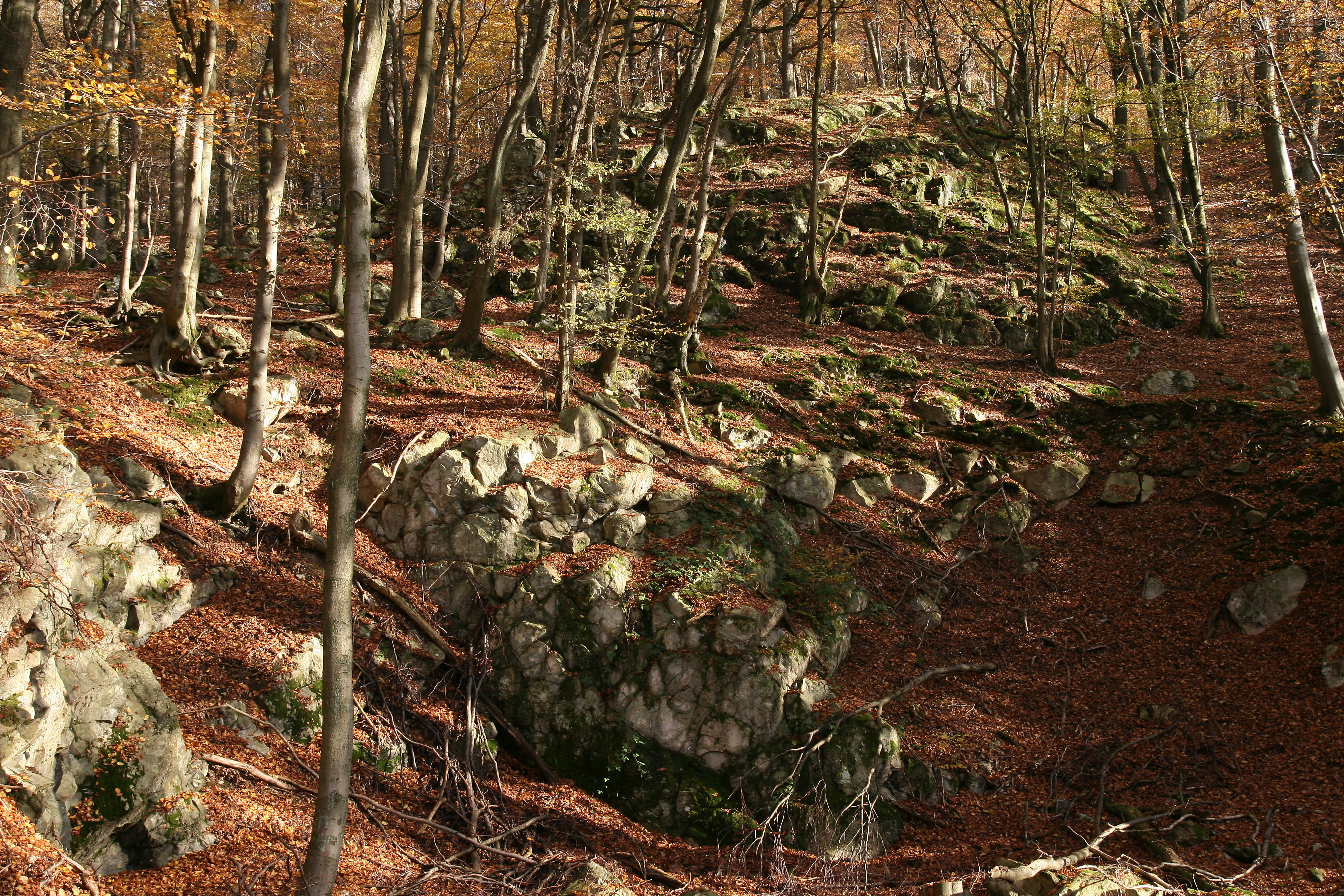 Old quarry on the western slope of Malberg mountain and nature reserve in Westerwaldkreis, Germany